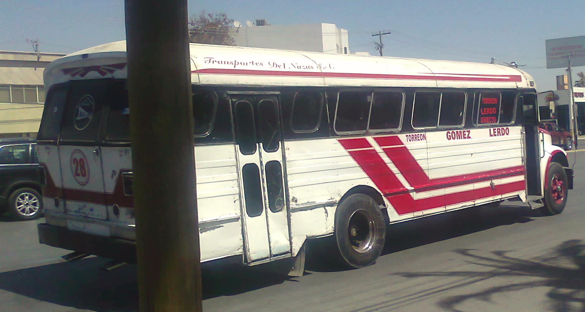 A very old Transportes del Nazas bus, which in my opinion should not still circulating in the streets.